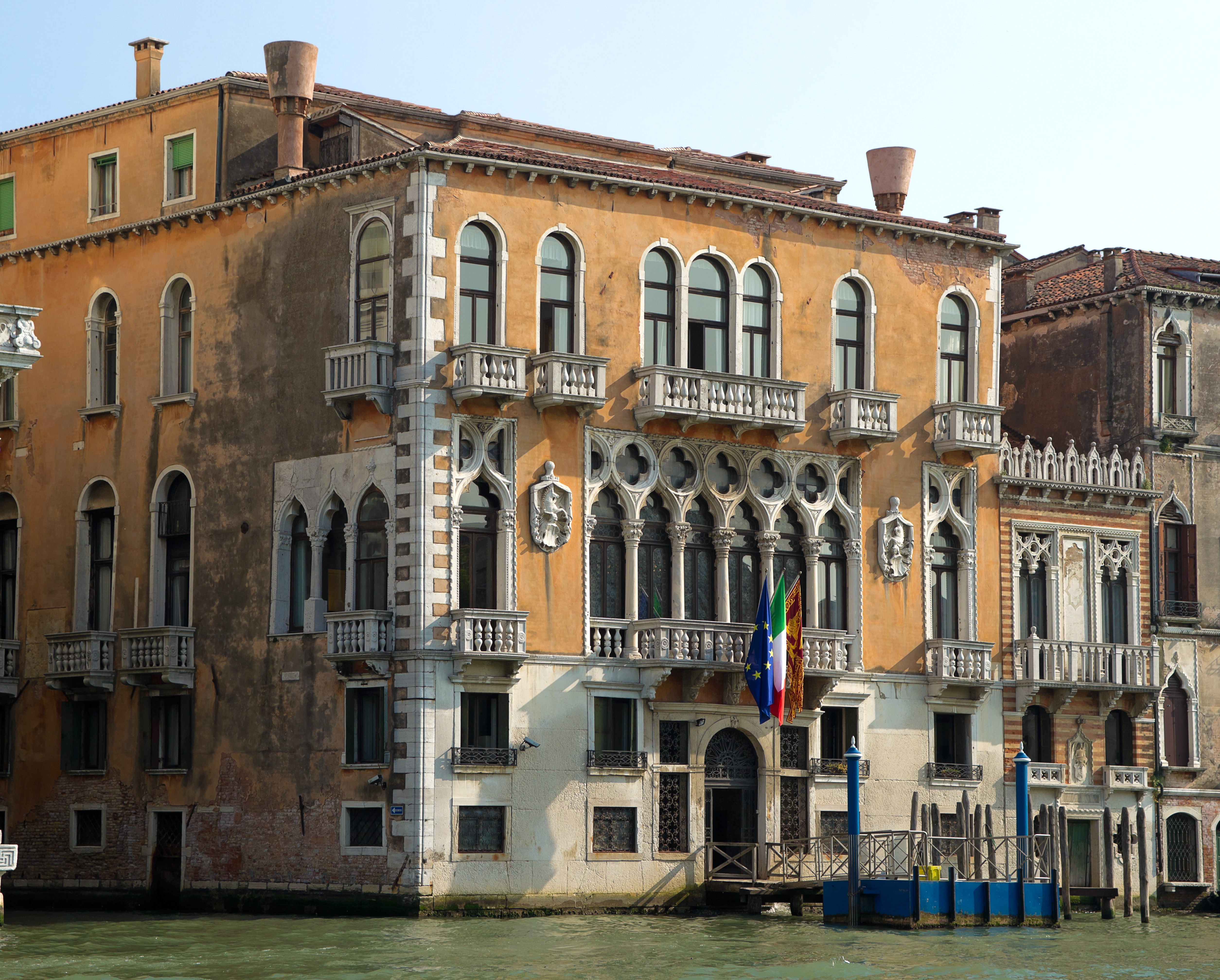 Palace Corner Contarini dei Cavalli in Venice facade